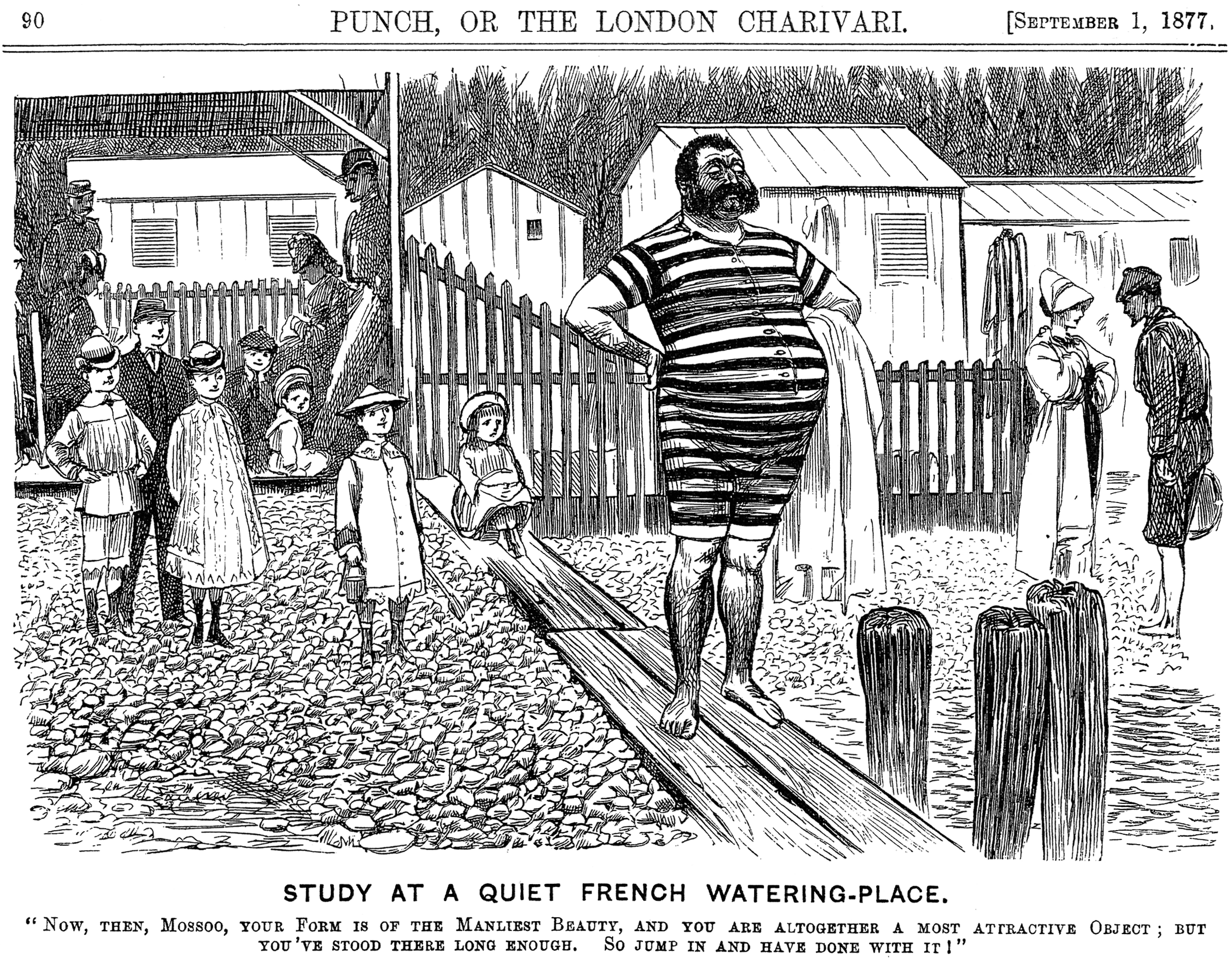 Study at a Quiet French Watering-Place. "Now then, Mossoo, your Form is of the Manliest Beauty, and you are altogether a most attractive Object; but you've stood there long enough. So jump in and have done with it!" Cartoon from Punch